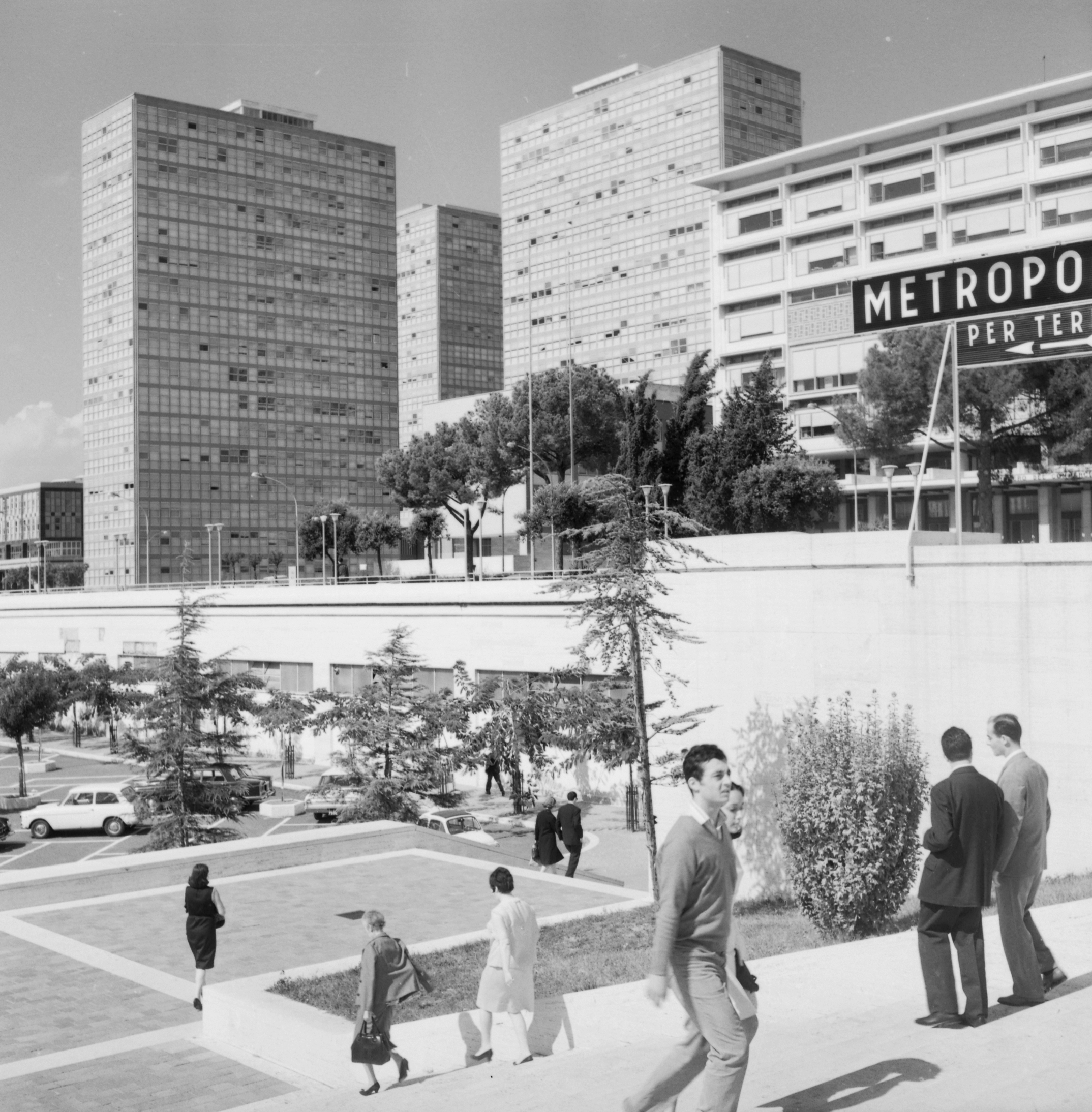 Ligini Towers in Rome, Italy seen from the stairs of EUR Fermi subway station in 1967.